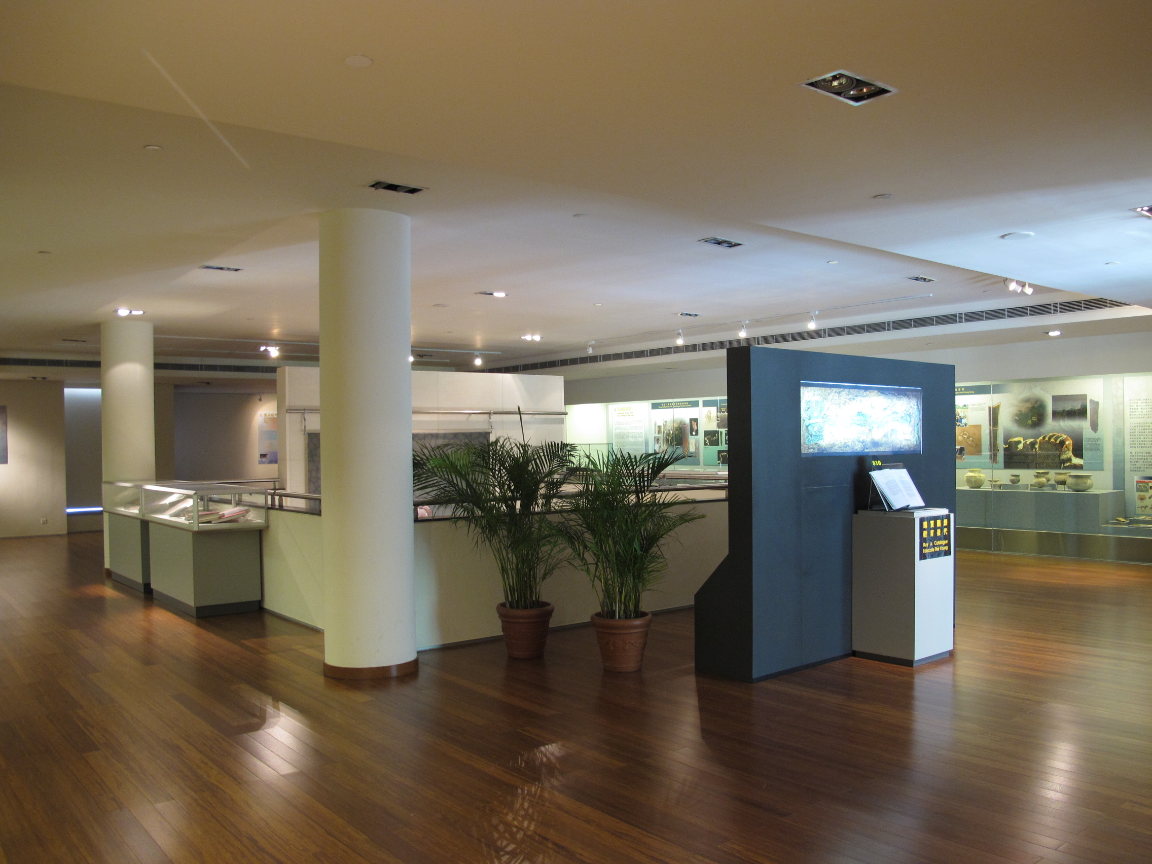 Art Museum The Chinese University of Hong Kong Interior